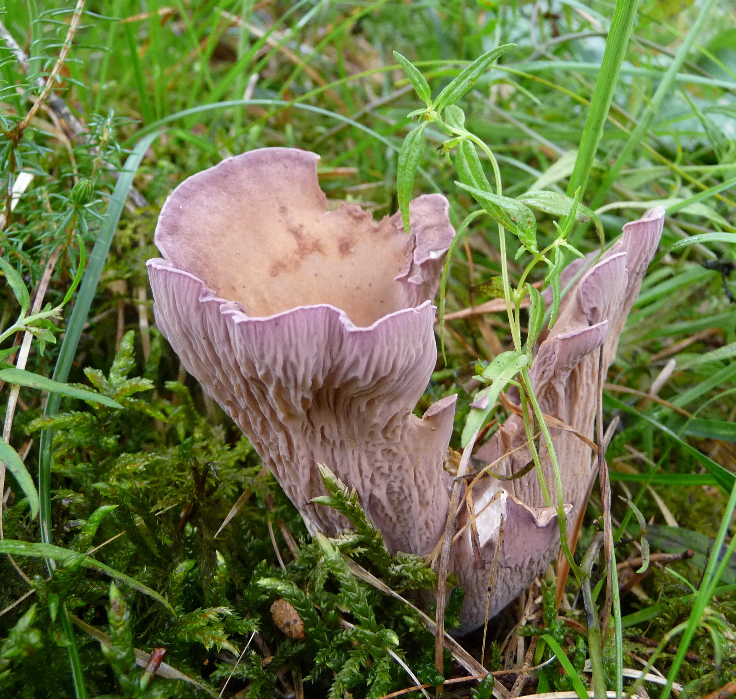 Gomphus clavatus, at the foot of Totes Gebirge, the Alps, Hinterstoder, Oberösterreich, Austria.